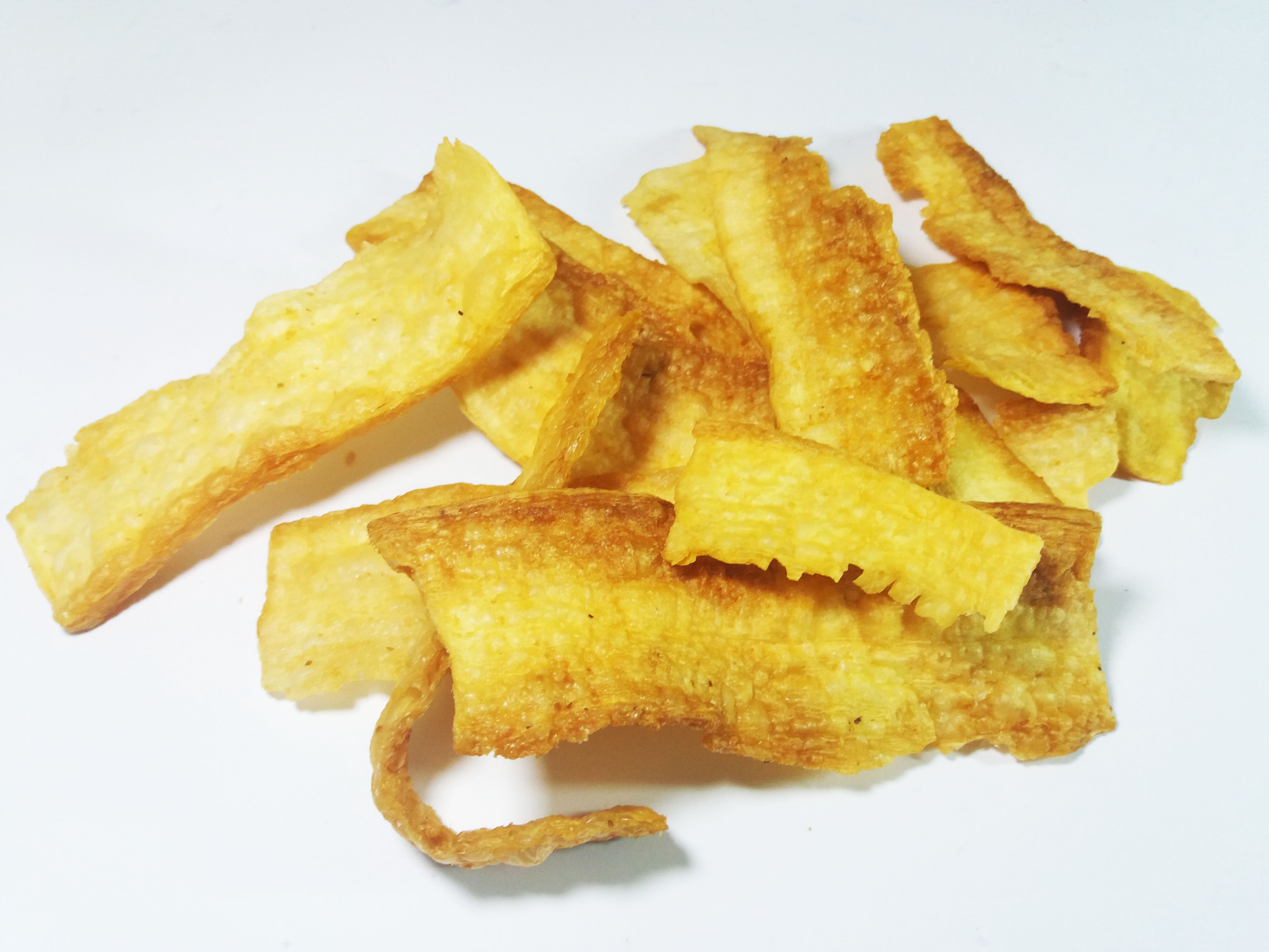 Balung Kethèk is traditional chips from Indonesia. This chip is made from cassava.